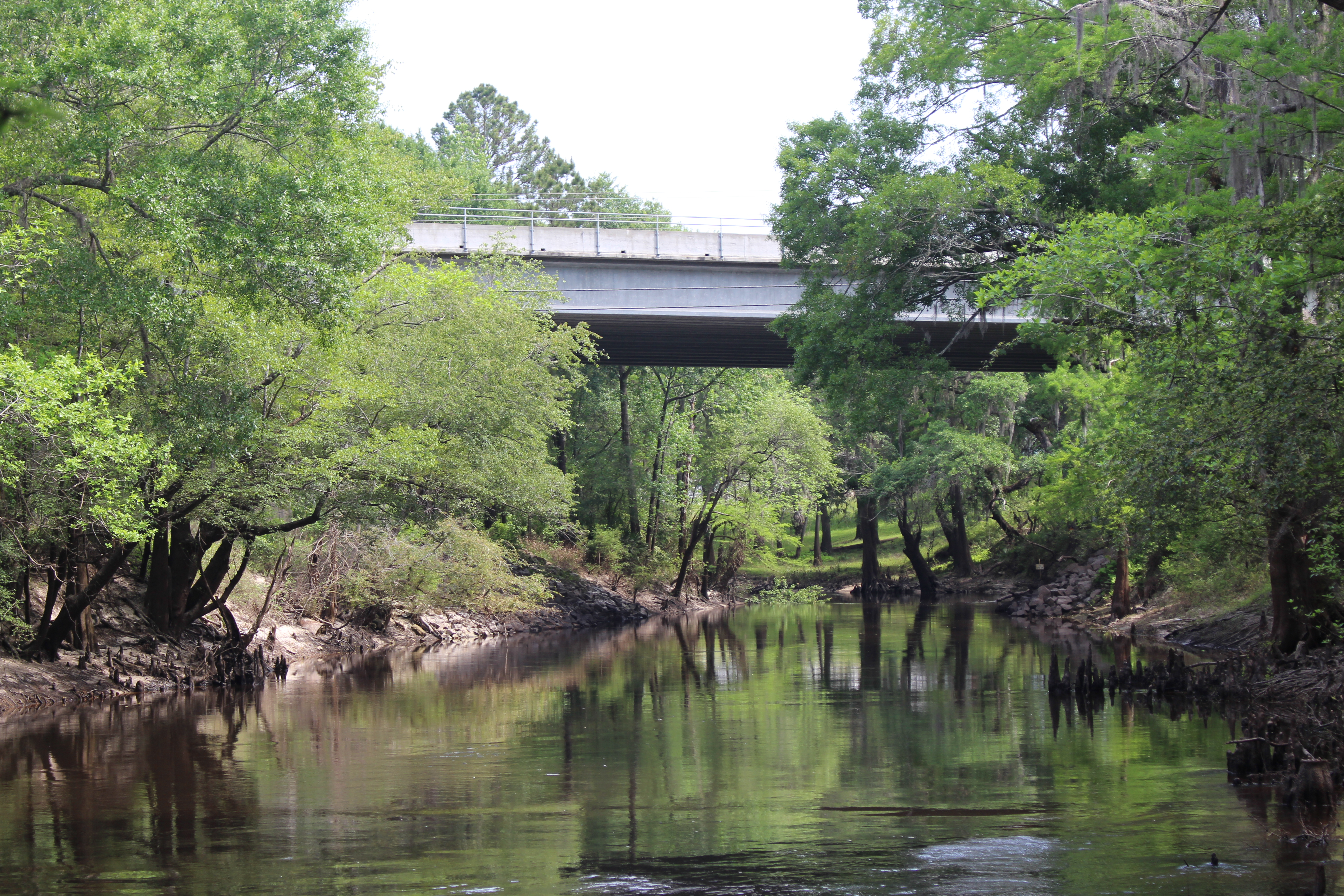 Little River and GA133 bridge, Brooks/Lowndes County, Georgia